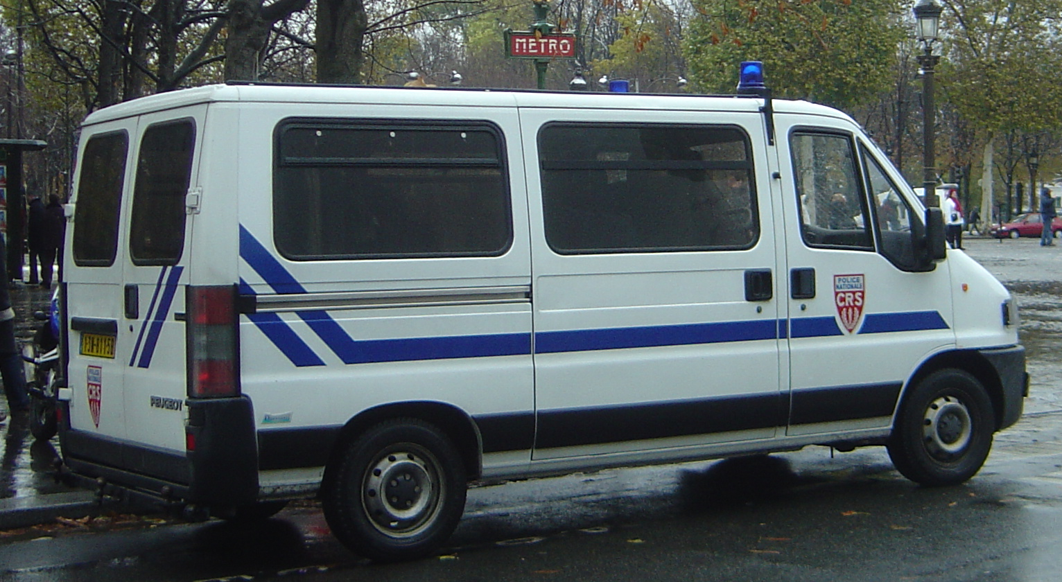 French National Police forces in front of the Grand Palais in Paris, France